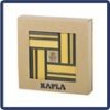 Kapla yellox-green box